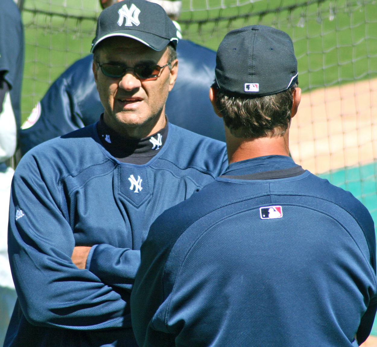 Photograph of Joe Torre taken by Googie Man